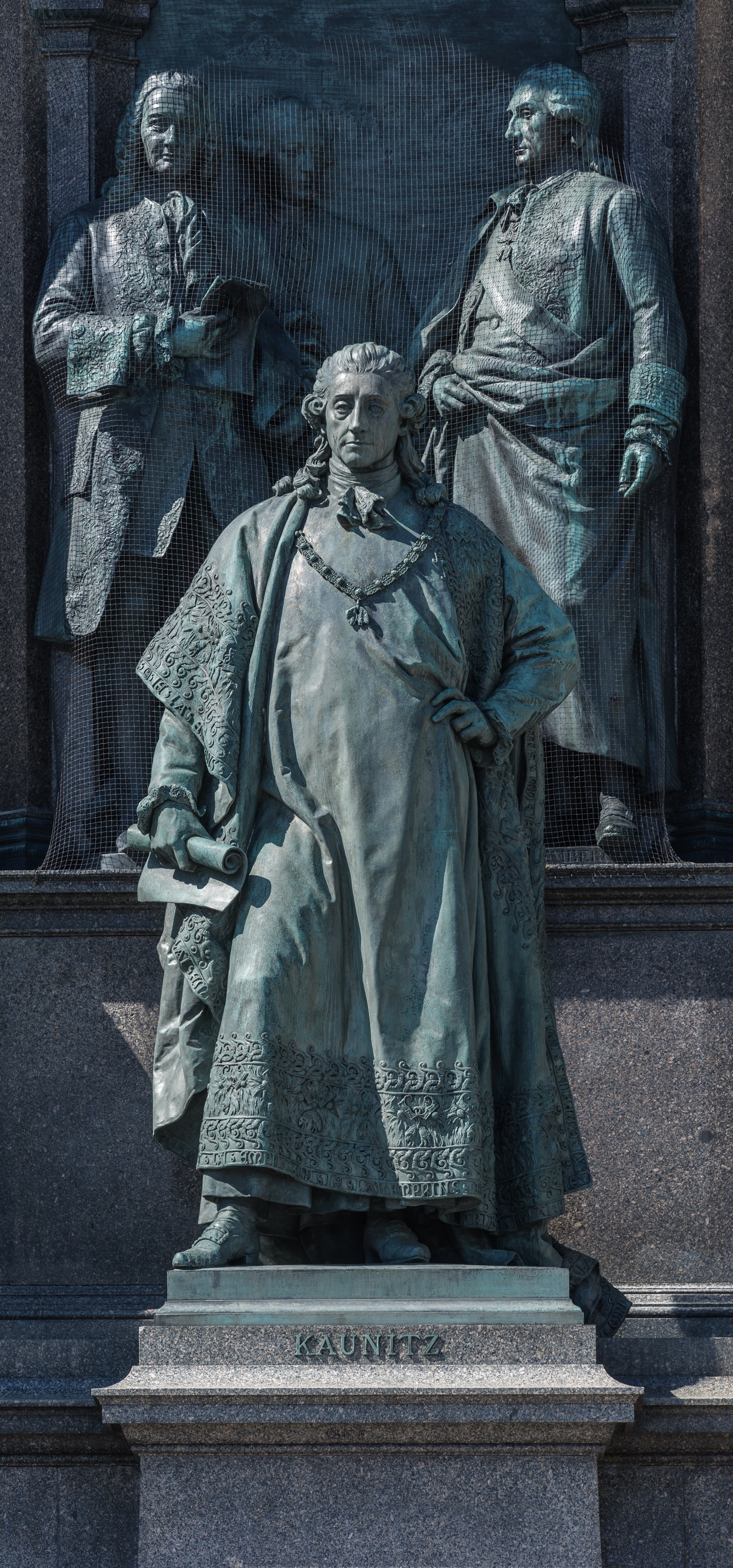 Maria-Theresia-square, Maria-Theresia monument, artist: Kaspar von Zumbusch (errected 1874-1888), Wenzel Anton Kaunitz The making of this work was supported by Wikimedia Austria. For other files made with the support of Wikimedia Austria, please see the category Supported by Wikimedia Österreich.